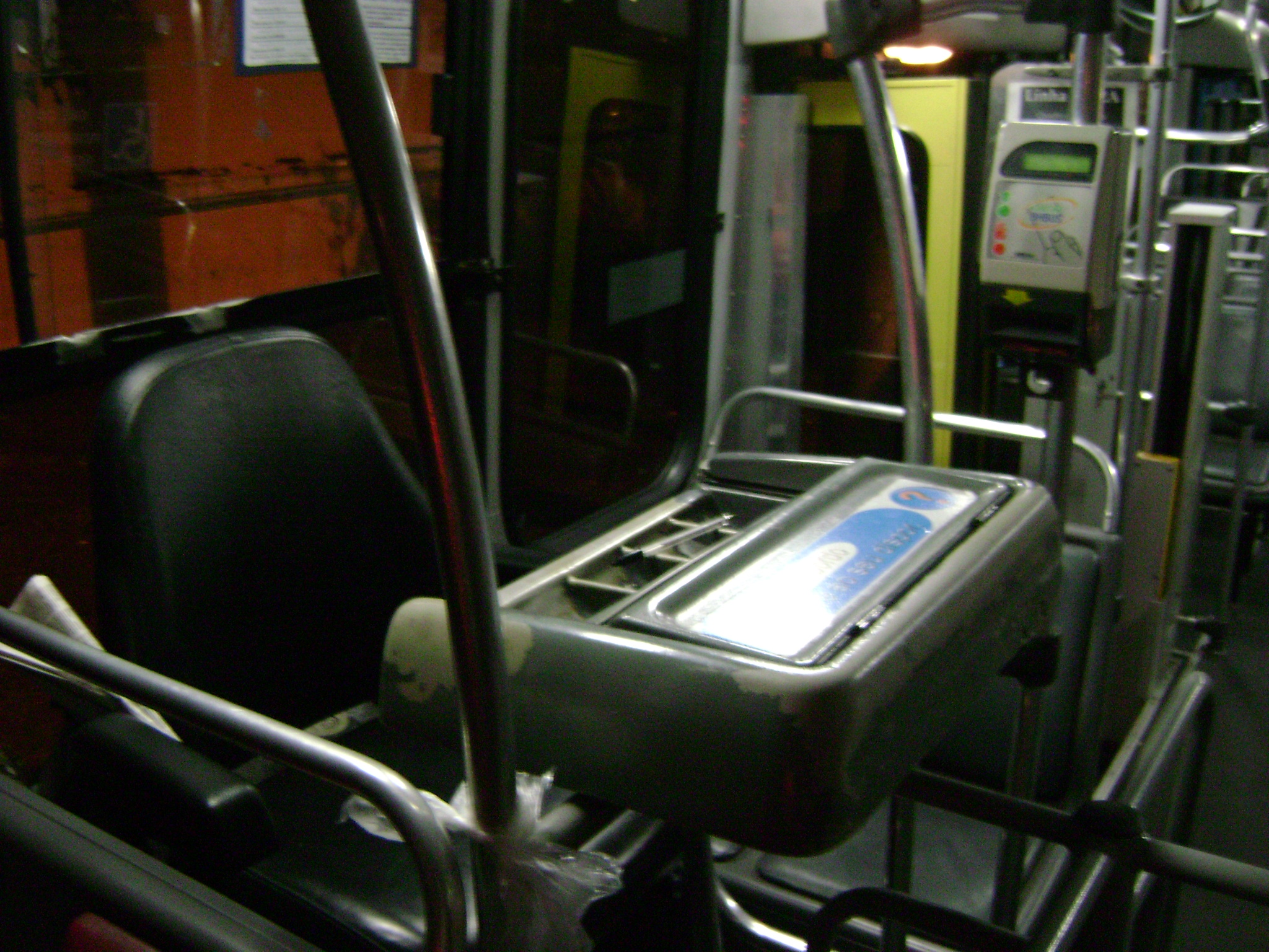 Roleta de ônibus (em Belo Horizonte).